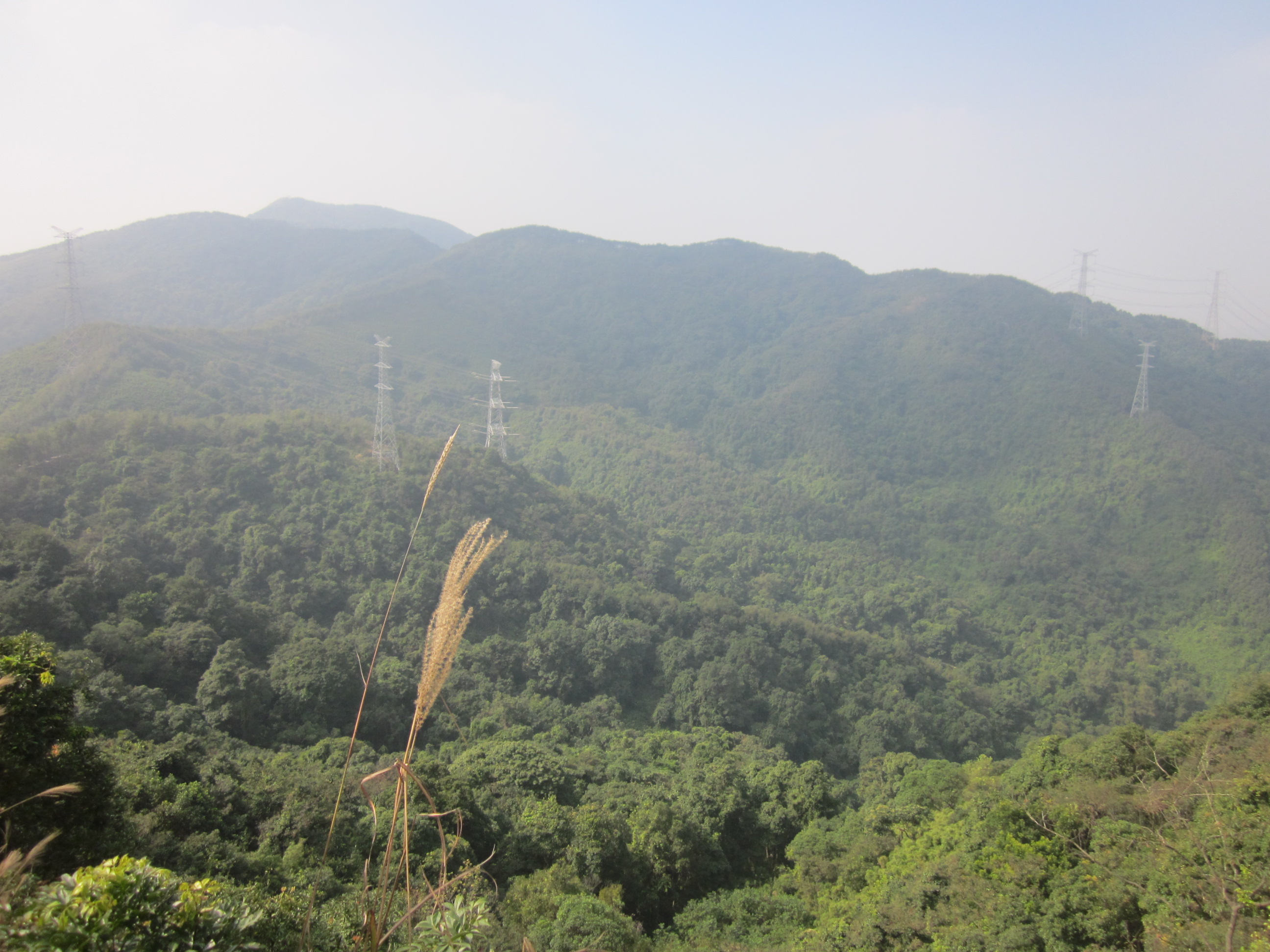 The Mount Big Yangtai in Shenzhen, Guangdong, China. 中文（中国大陆）: 中国广东省深圳市的大羊台山。羊台山位于石岩街道办的部分称为大羊台山。